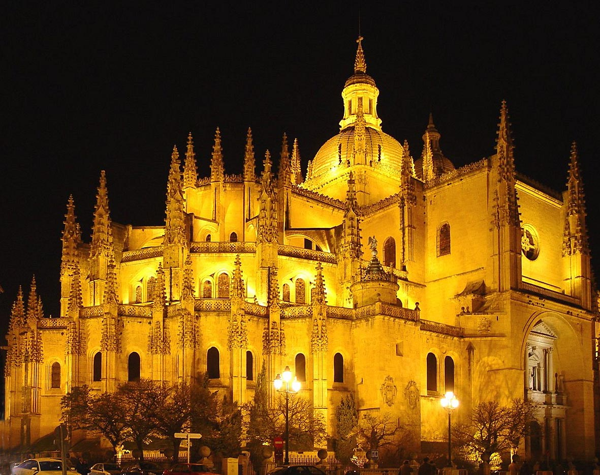 View of the Cathedral of Segovia (Spain) from la Plaza Mayor. Architects: Juan Gil de Hontañón (from 1525 until 1526), his son Rodrigo Gil de Hontañón (until 1577) and Juan de Mugaguren.